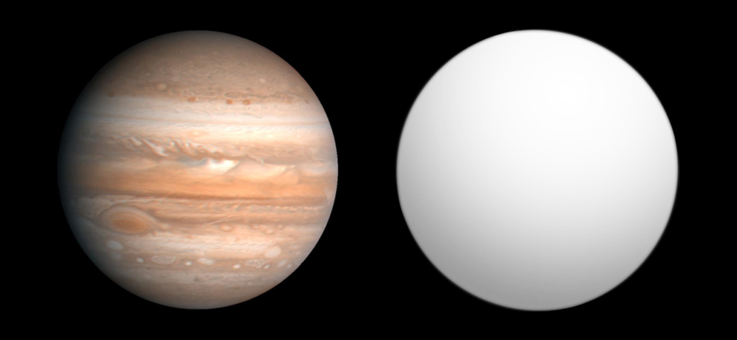 Comparison of best-fit size of the exoplanet WASP-16 b with the Solar System planet Jupiter, as reported in the Open Exoplanet Catalogue[1] as of 2010-09-30. ↑ Open Exoplanet Catalogue (2010-09-30). Retrieved on 2010-09-30.